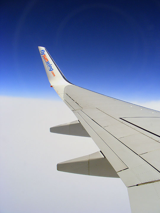 Boeing 737-800s, [foto Paul B. Toman]